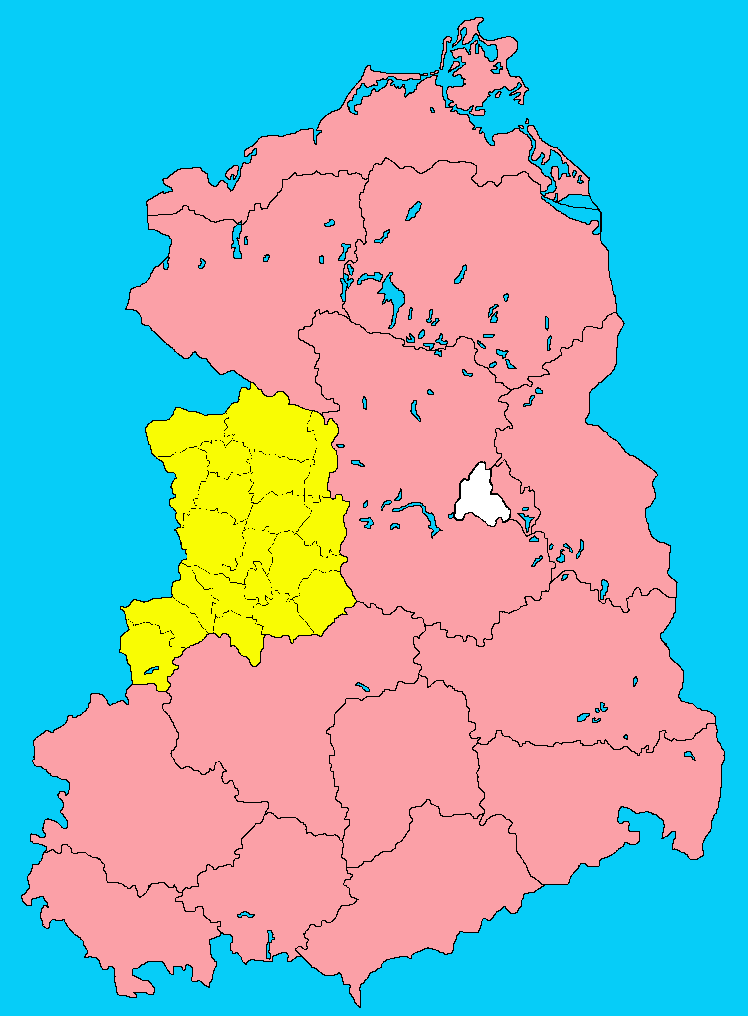 Map of the District of Magdeburg in the German Democratic Republic (East Germany). The districts existed between 1952 and 1990. All of the district's area belongs now to the State of Saxony-Anhalt.